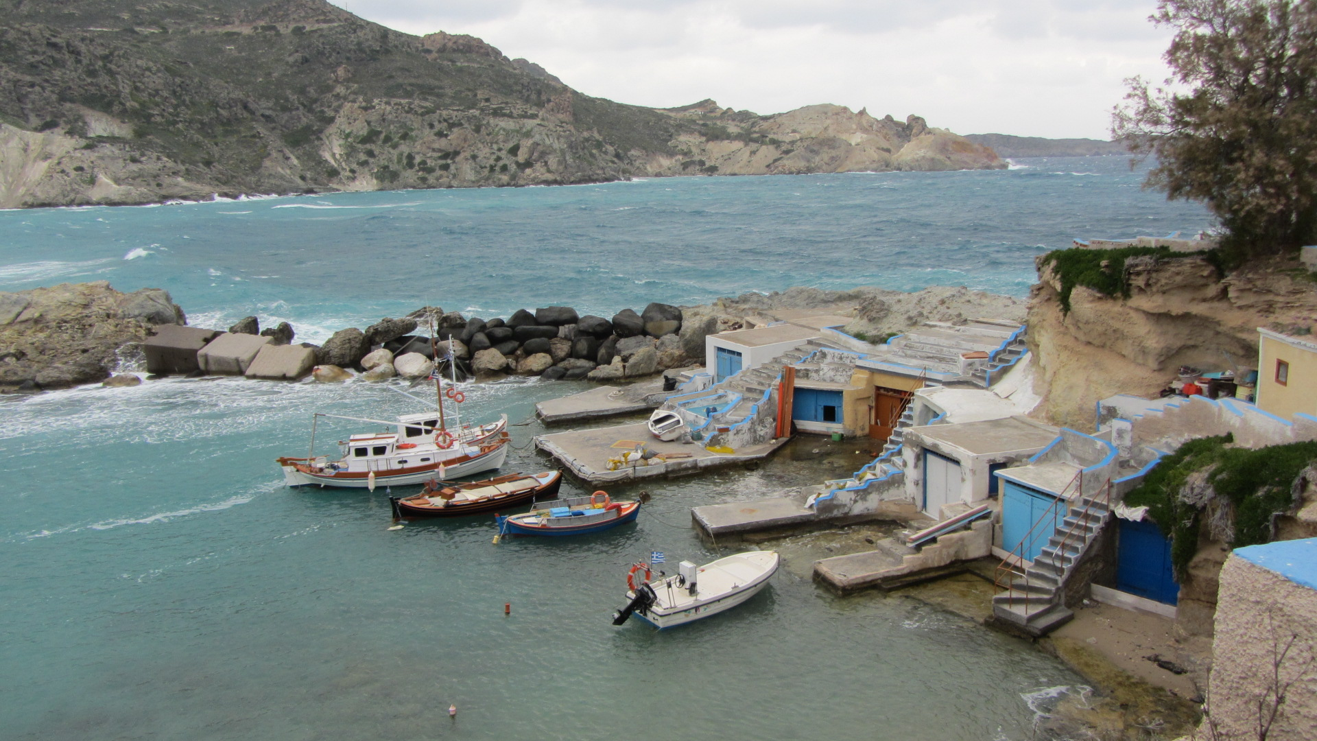 Mandrakia, Milos island, Greece